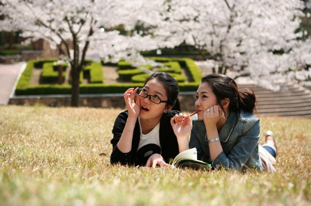 Taekyeung College